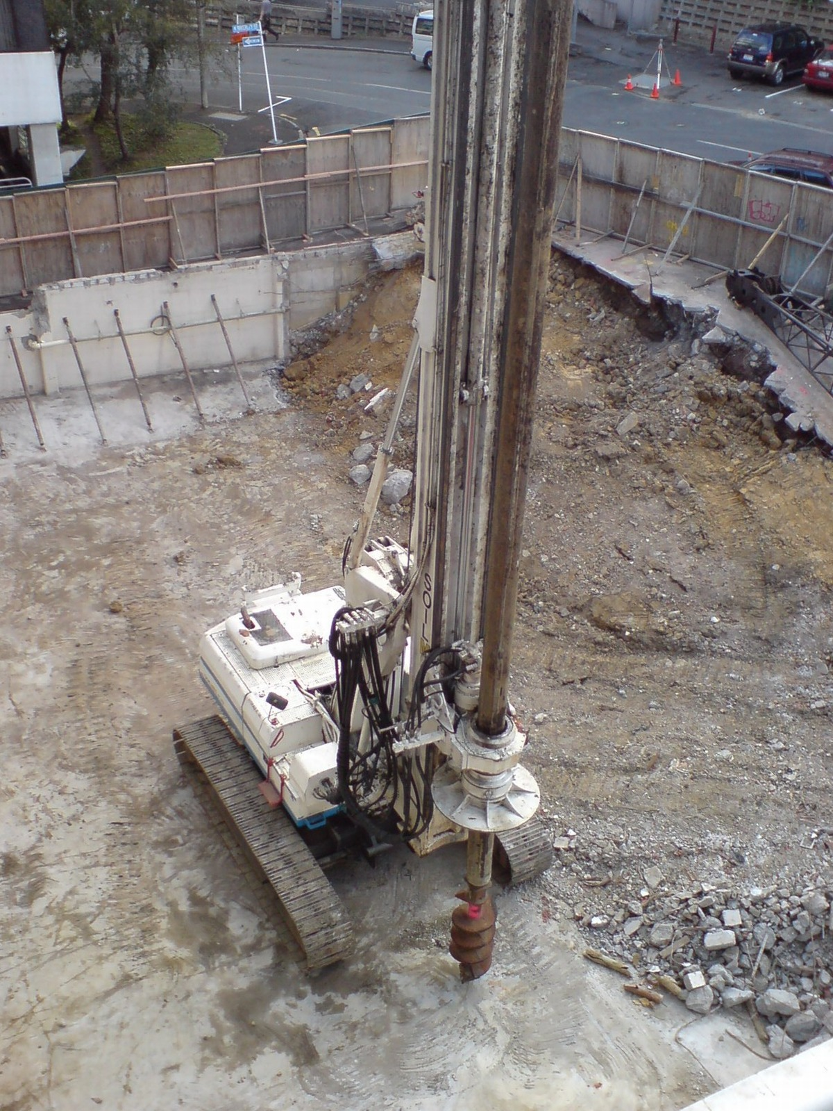 An auger-type drilling rig used for drilling holes for foundation piles on a construction site. Auckland City, New Zealand.